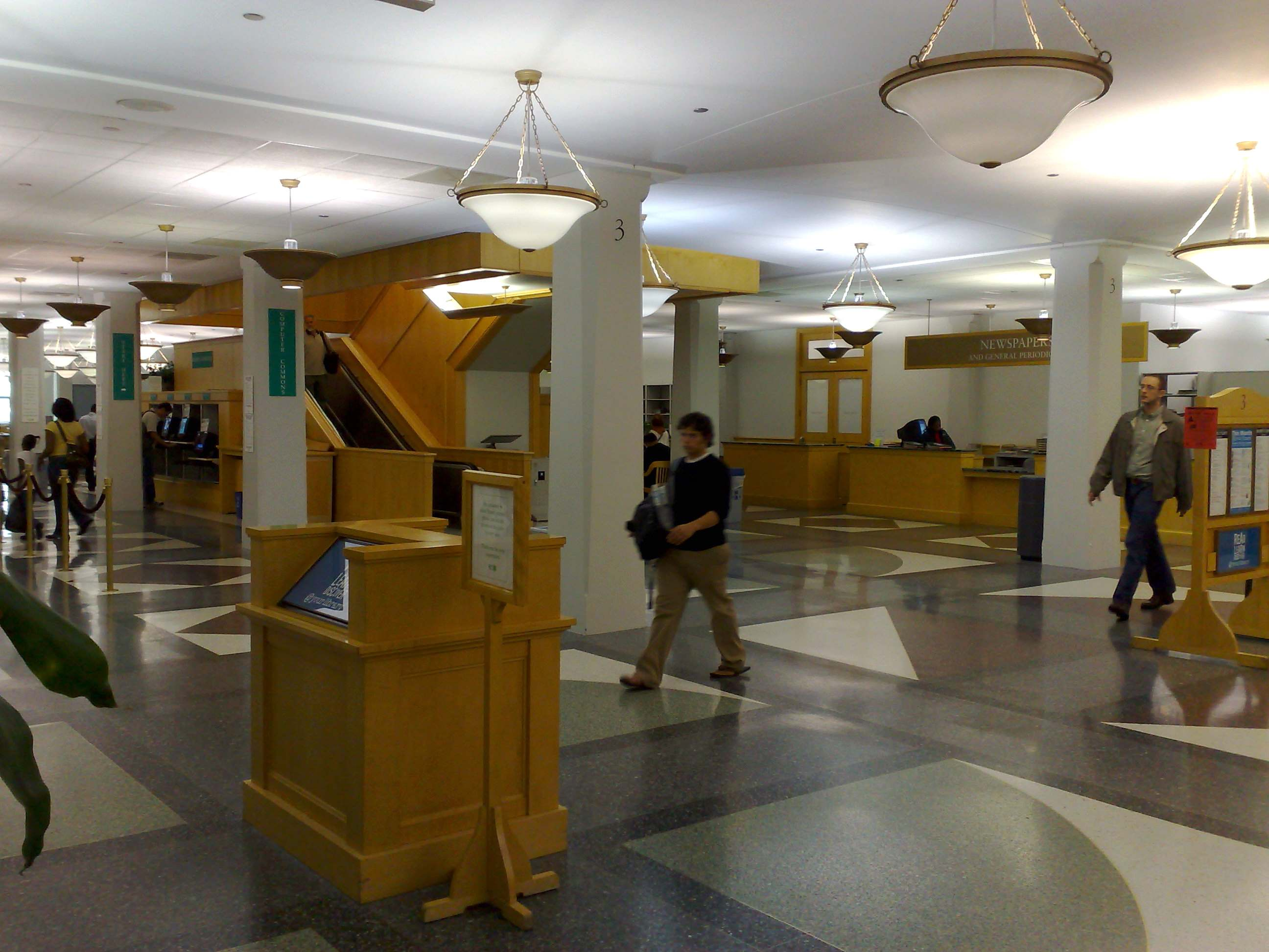 3rd level of the Harold Washington Library (Chicago)